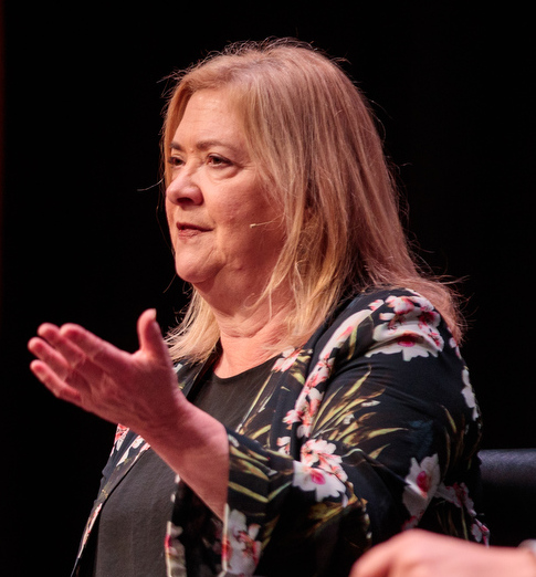 Writer Diana Wichtel appearing at WORD Christchurch Festival, September 2018